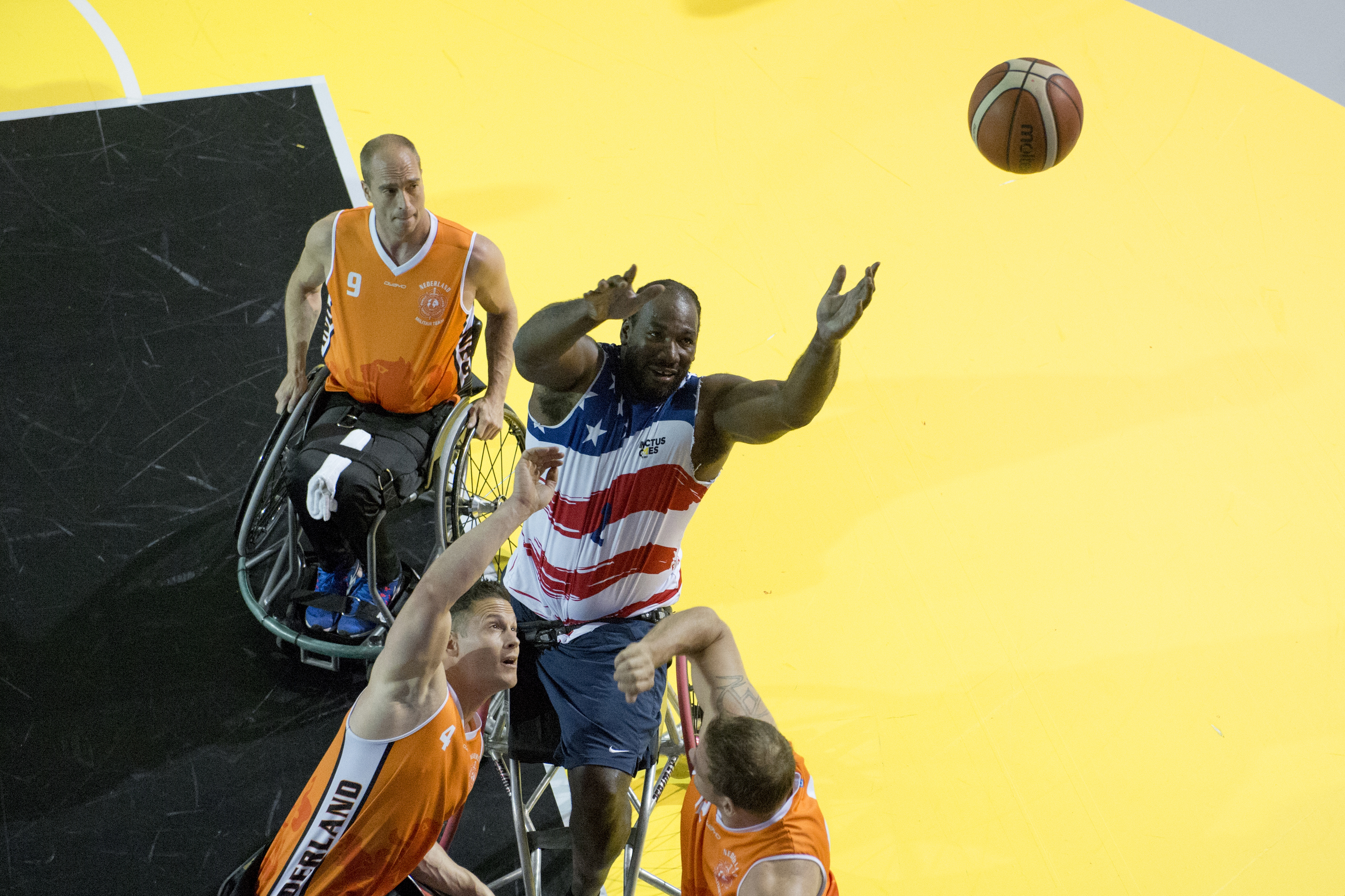 Retired Army Spc. Anthony Pone reaches for a rebound between Netherlands defenders during basketball preliminary rounds during the 2017 Invictus Games in Toronto, Canada Sept. 28, 2017. (DoD photo by EJ Hersom)